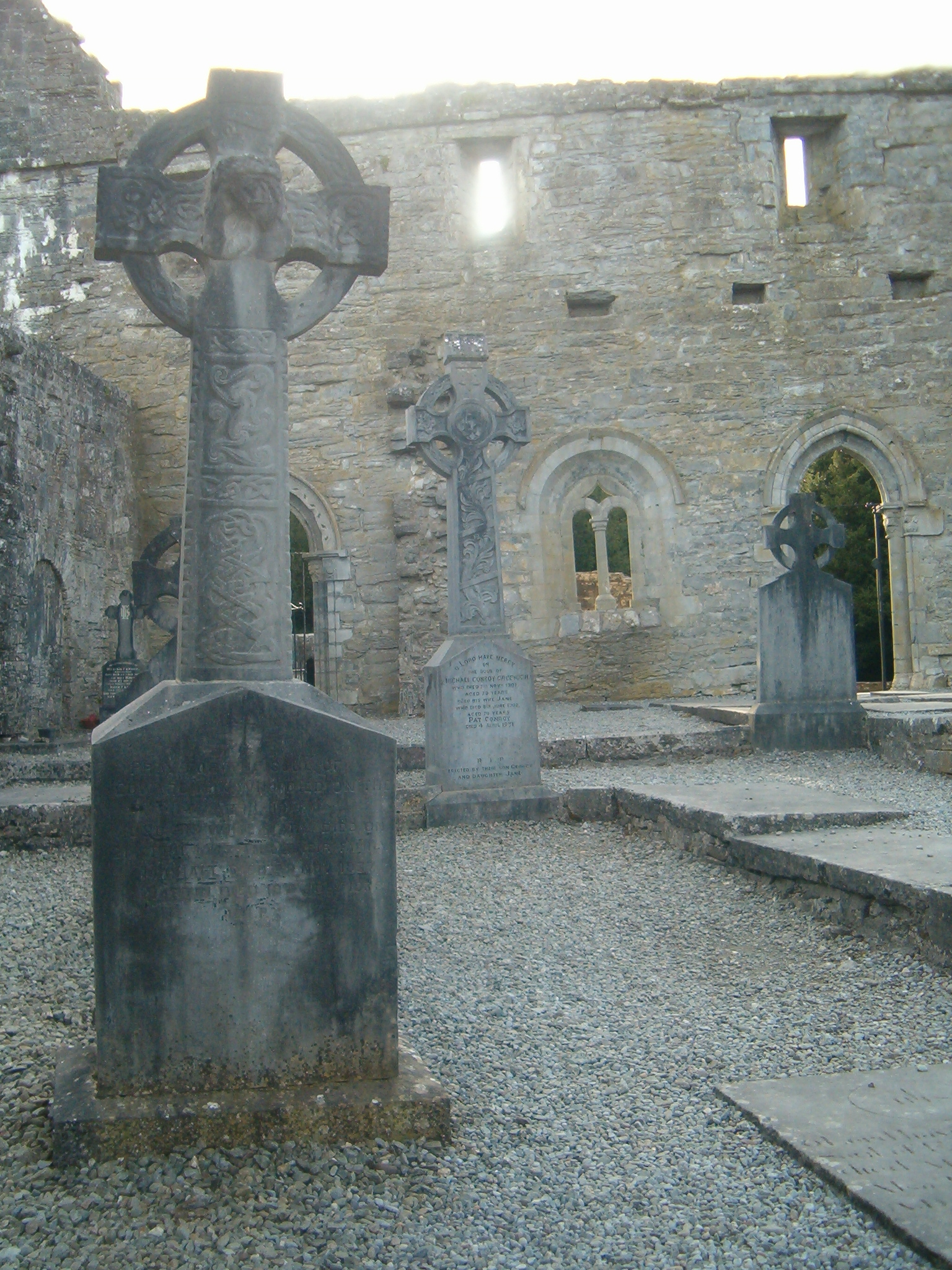 *Description: Celtic crosses in the 11th century abbey of Cong (Ireland). *Author: Vincent Roux *Date: 19/04/2006